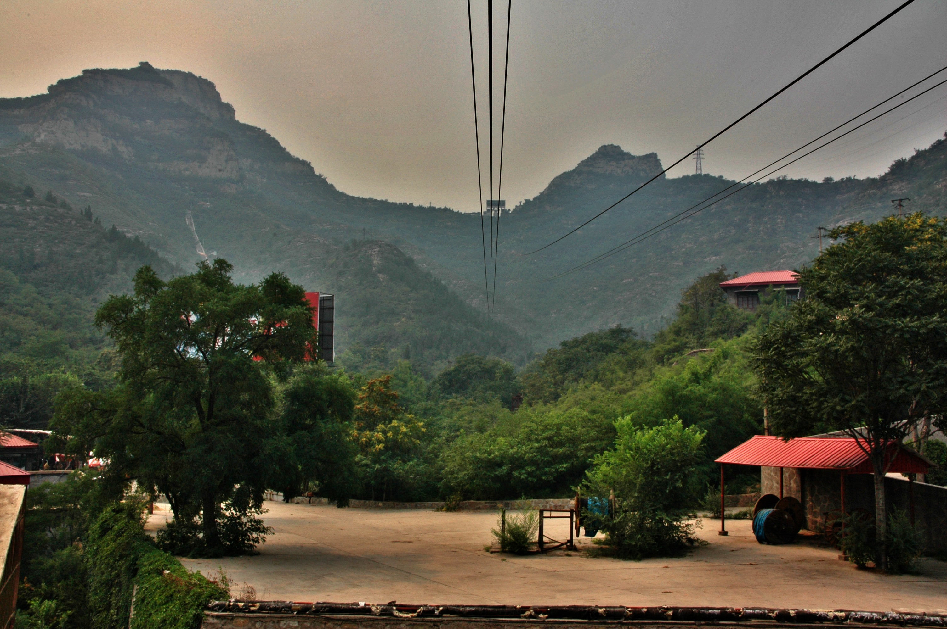 View of the middle cableway station from the bottom station, Baodu Zhai, Shijiazhuang, China.